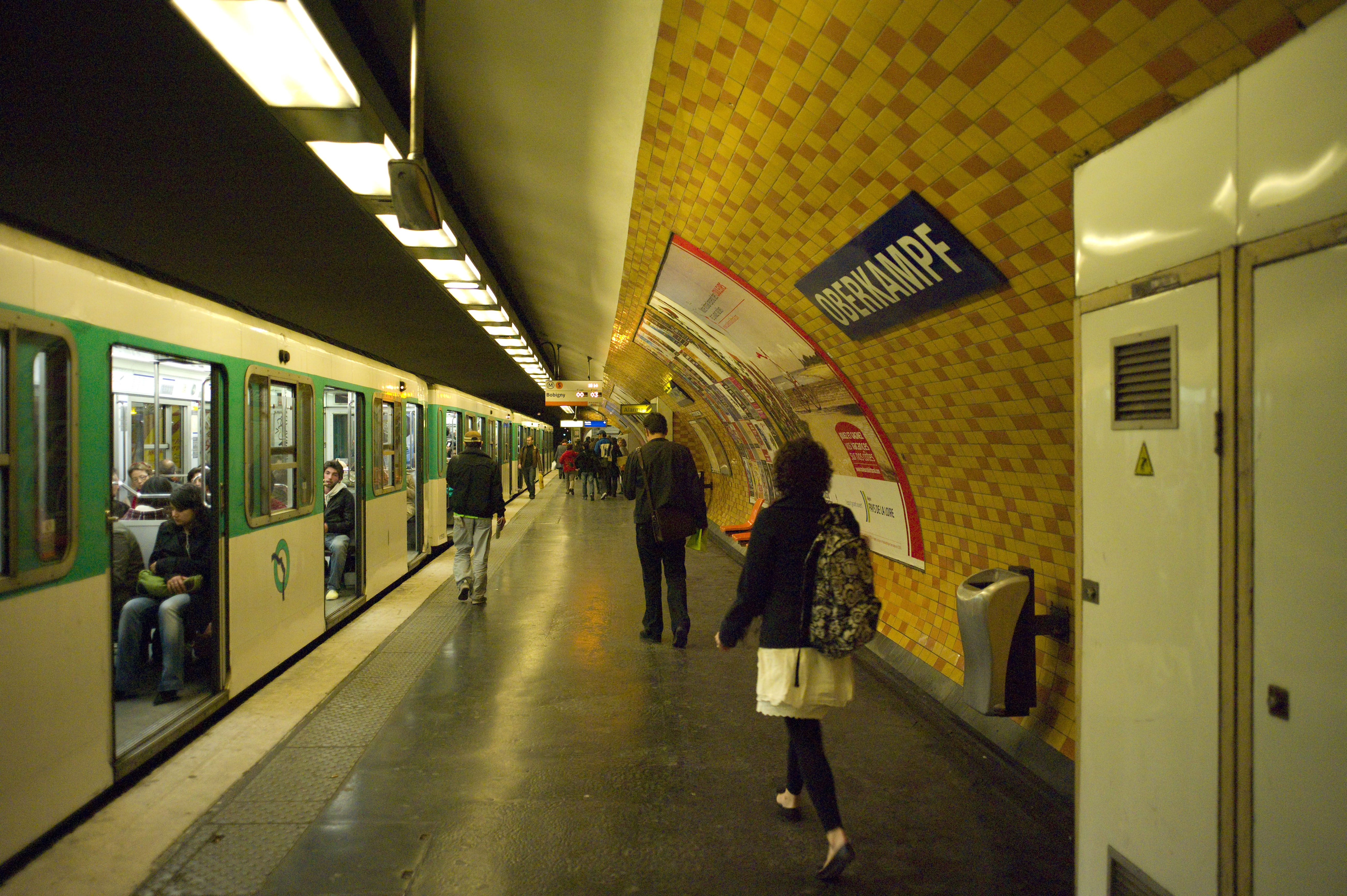 Oberkampf station on the line 5 of Paris Métro